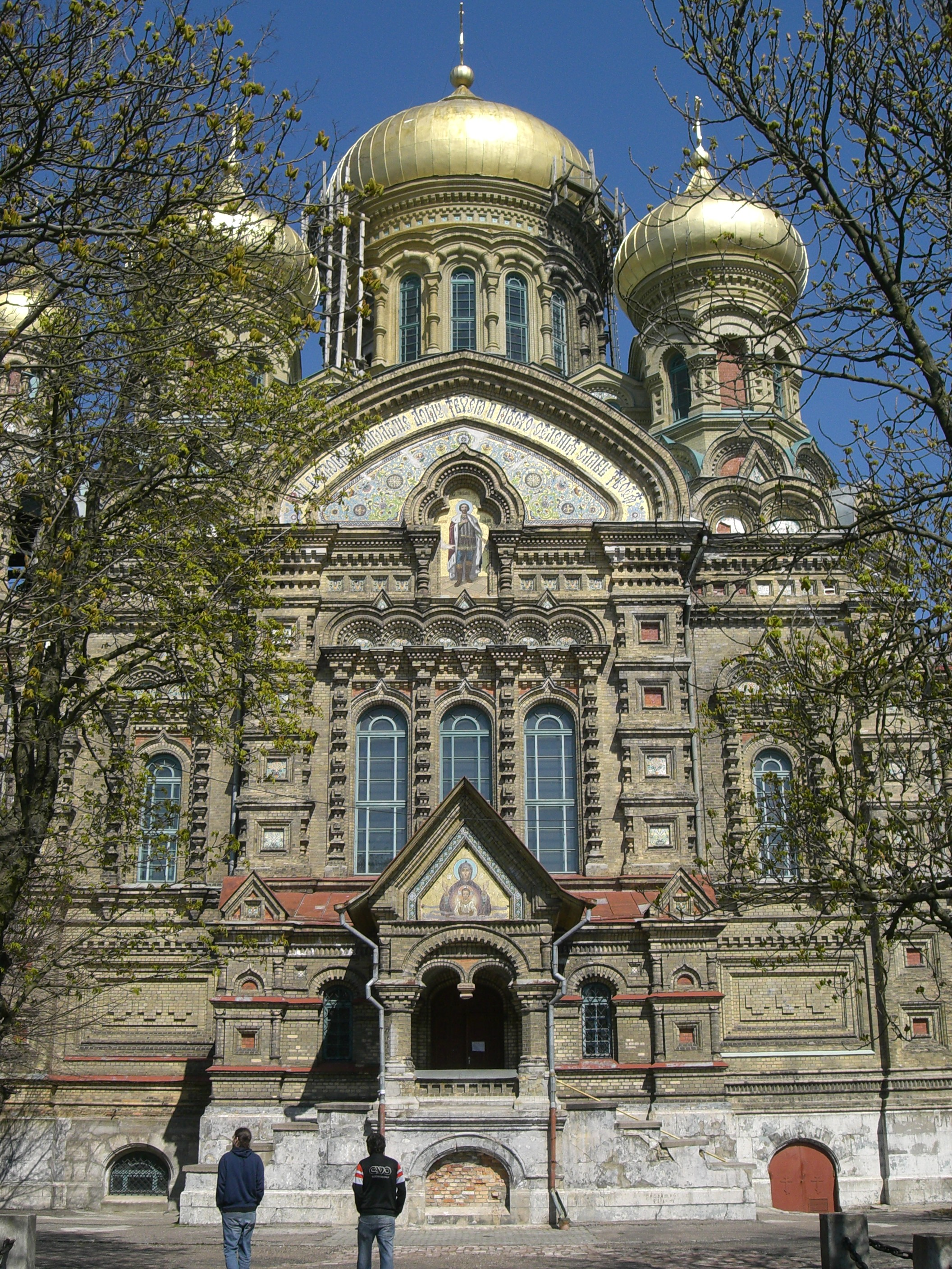 Church in the Karosta in north direction from Liepāja town, Latvia.